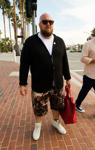 Jon Buscemi at the streetwear tradeshow AGENDA.